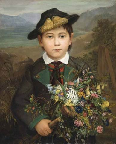 Boy in Costume with Summer Bouquet